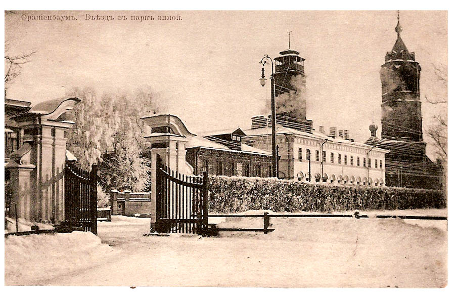 Oranienbaum. Entrance to park